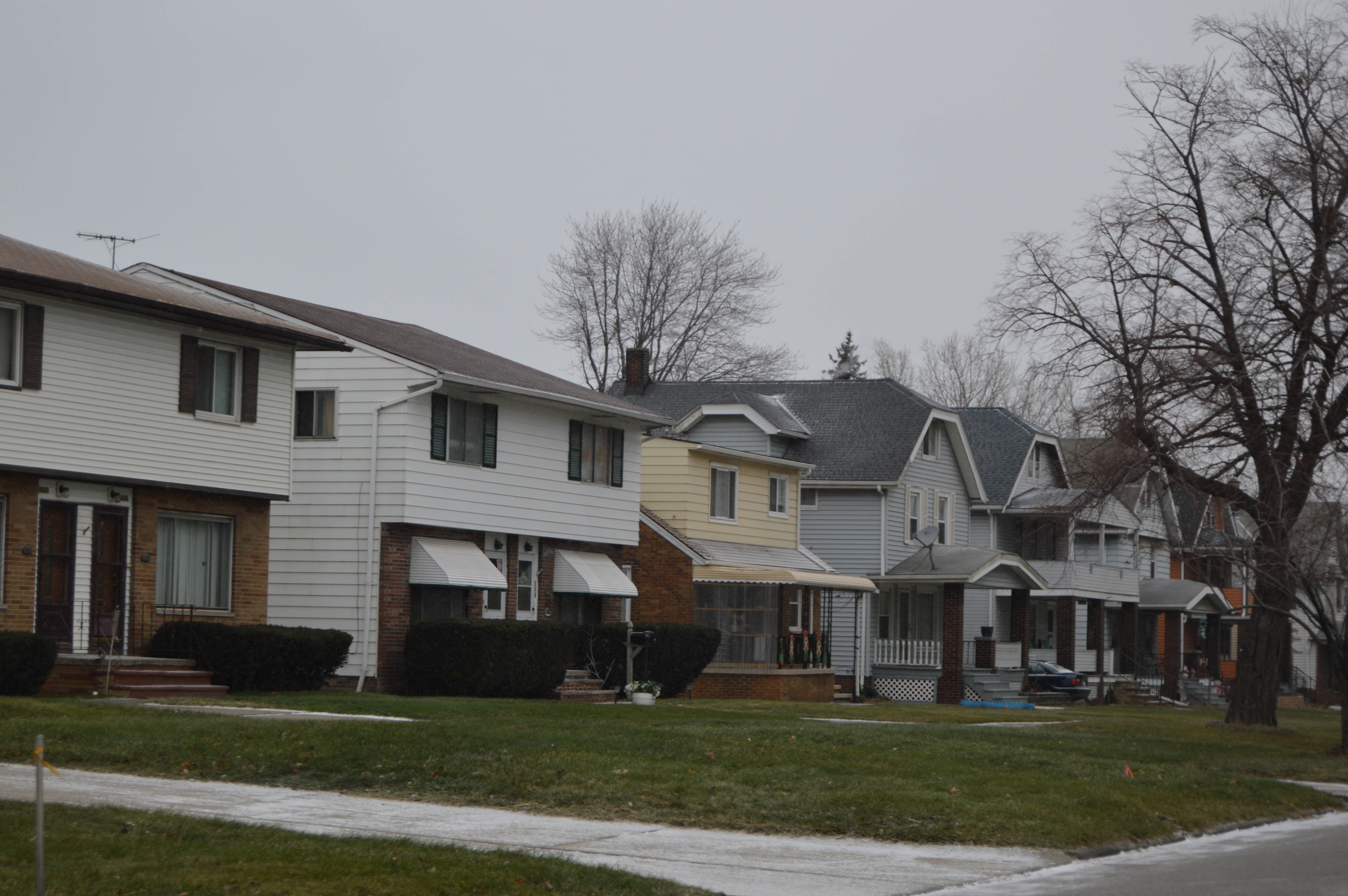 Houses on Washington Park Boulevard, just north of Harvard Avenue, in Newburgh Heights, Ohio, United States.